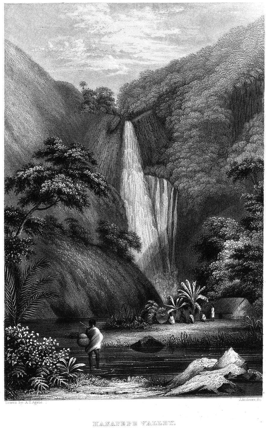 Drawing of Hanapepe Valley by United States Exploring Expedition, 1838-1842, in Hawaii. Published in Narrative of the United States Exploring Expedition during the years 1838, 1839, 1840, 1841, 1842. Volume 4, 1845.